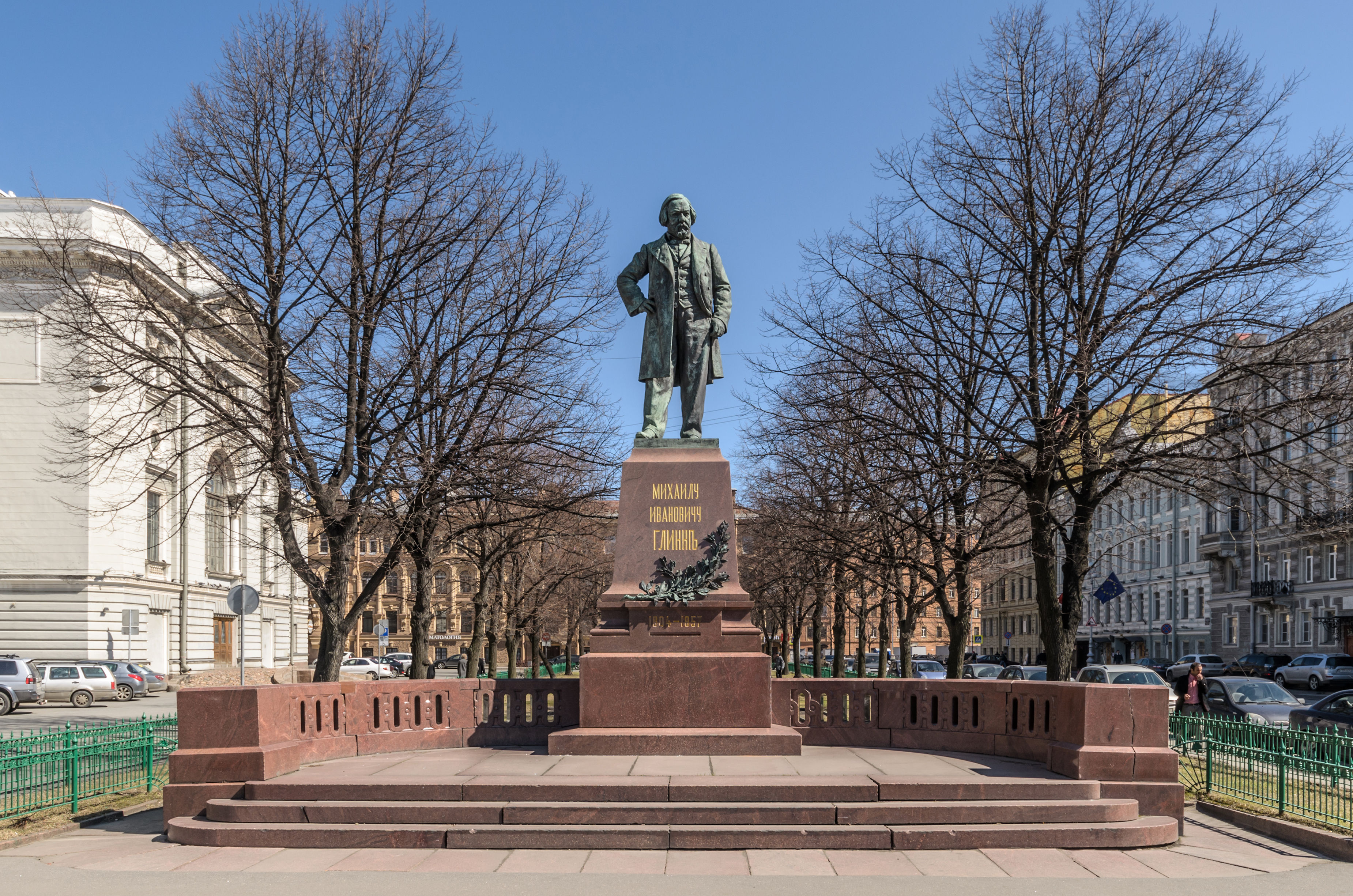 M.I. Glinka monument on Teatralnaya square in Saint Petersburg